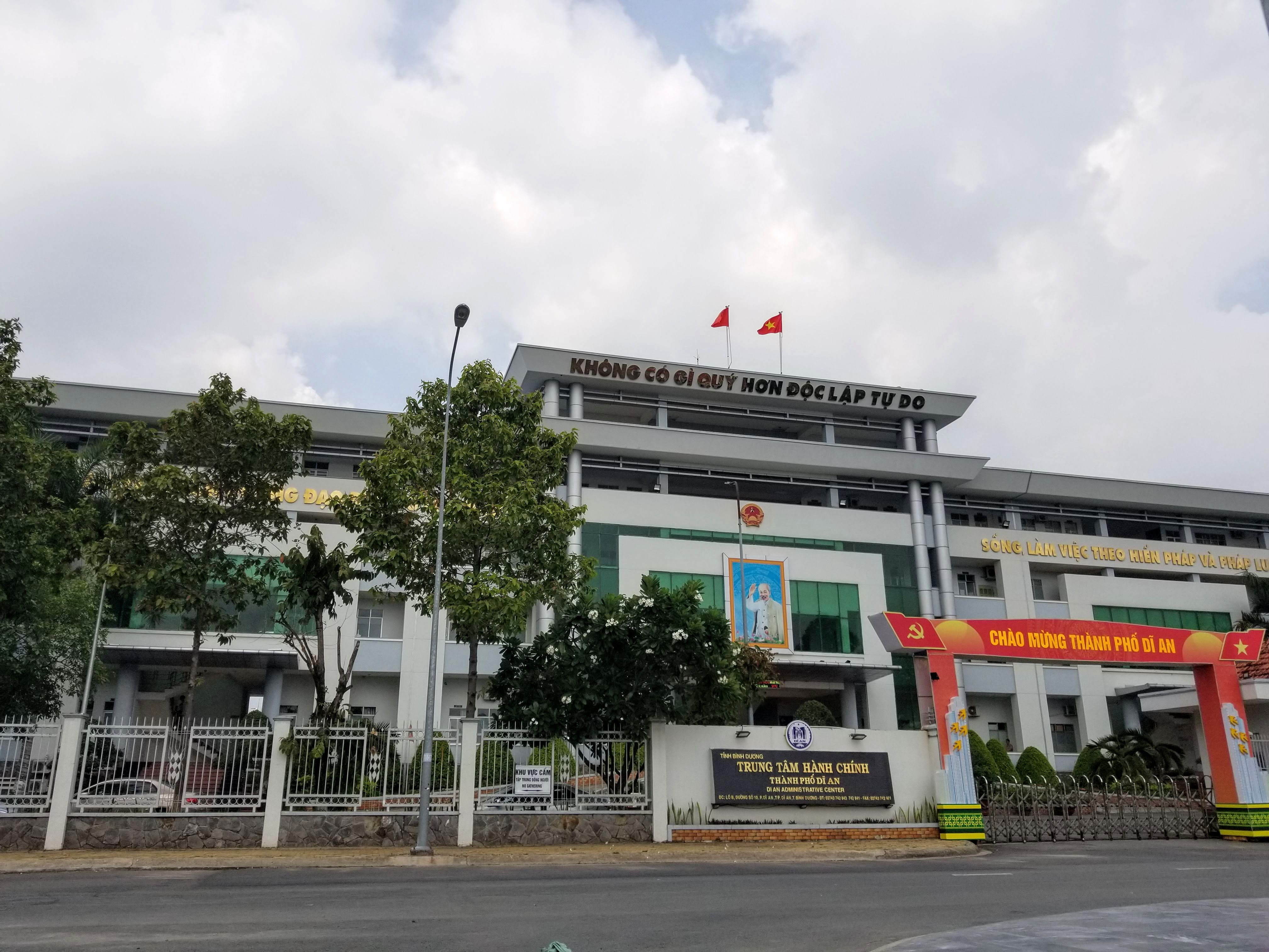 Di An Administrative Center was took on June 4th 2020